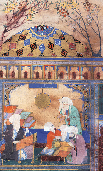 Nasir al-Din al-Tusi at the observatory in Maragha, Persia. British Library.